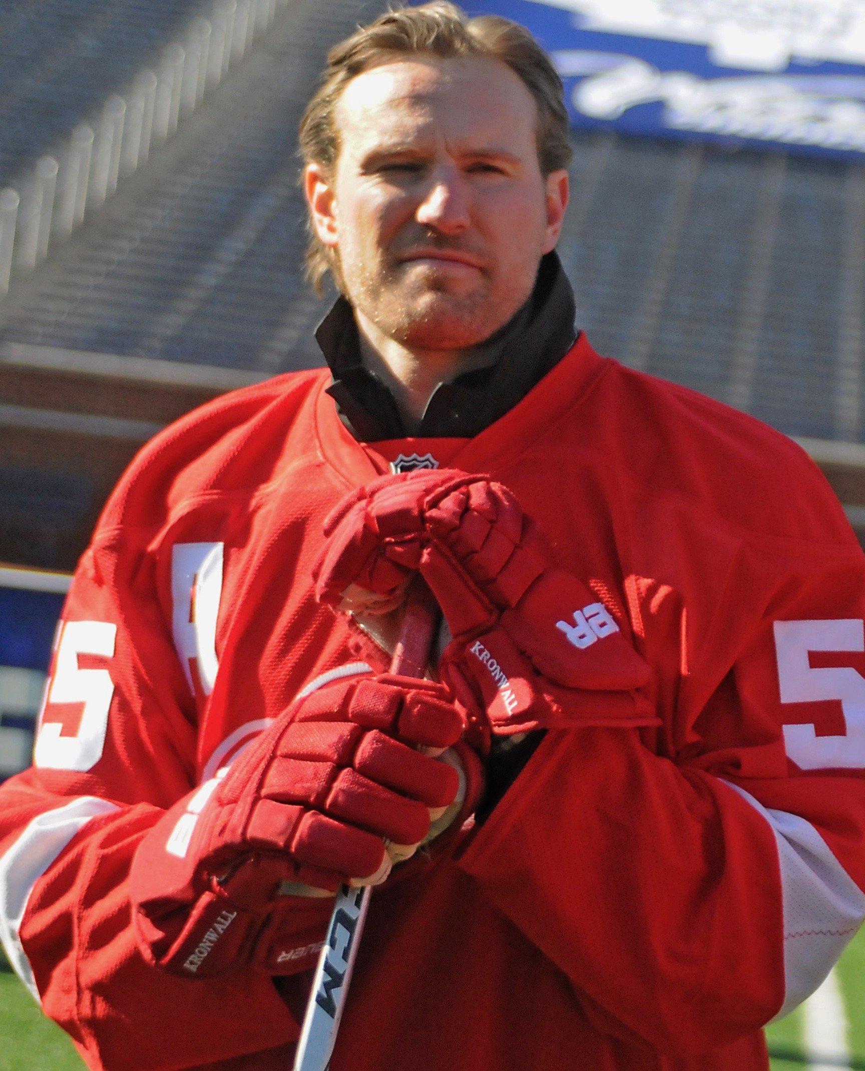 Niklas Kronwall and Henrik Zetterberg of the Detroit Red Wings. (ADAM GLANZMAN/Daily)